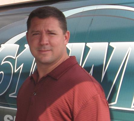 Ricky Bottalico outside of Citizen's Bank Ballpark, Philadelphia PA 2009 08 08